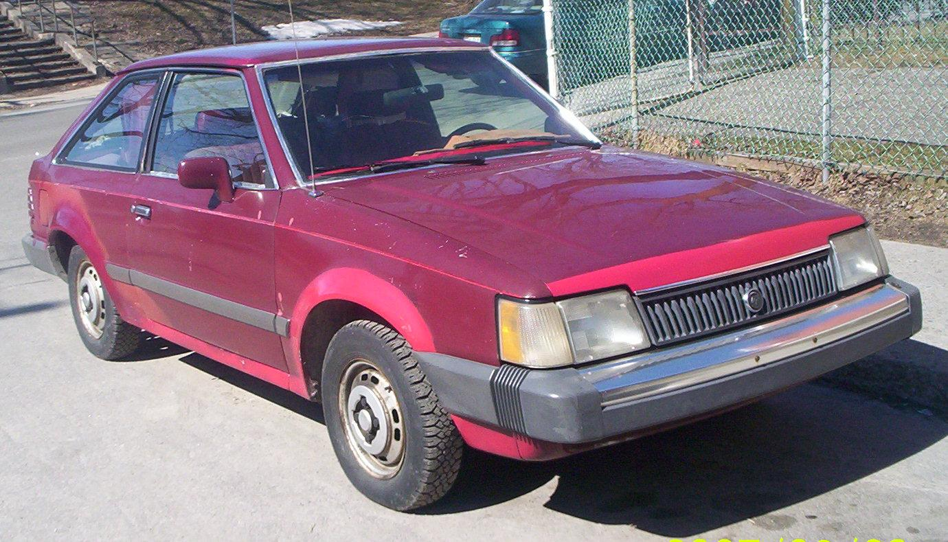 1986-1987 Mercury Lynx photographed in Montreal, Quebec, Canada.